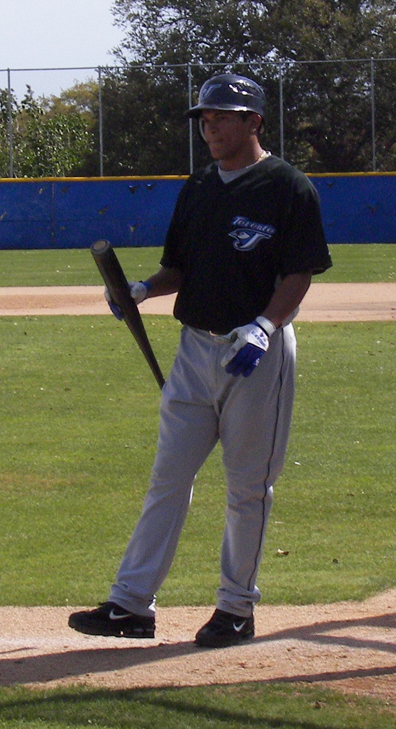 Toronto Blue Jays shortstop Ray Olmedo during a spring training workout at the Blue Jays' spring training complex in Dunedin, Florida.